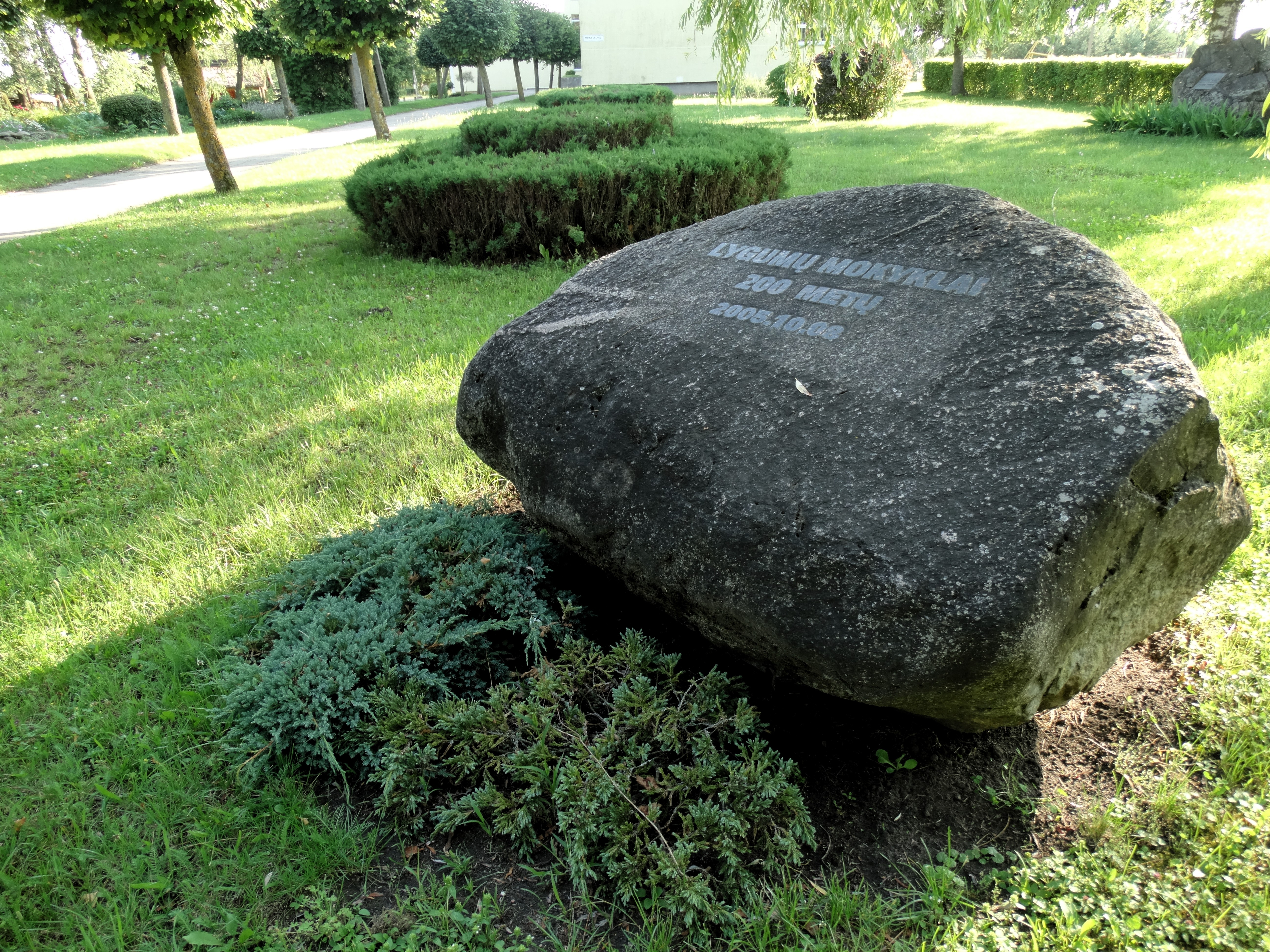 Stone, Lygumai Basic School, Pakruojis District, Lithuania